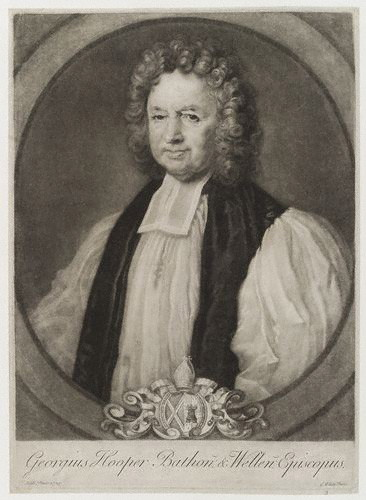 George Hooper (1640-1727)